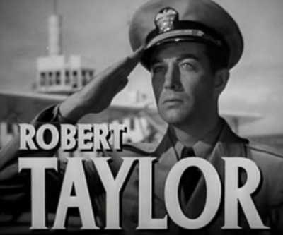 Cropped screenshot of Robert Taylor from the trailer for the film Flight Command